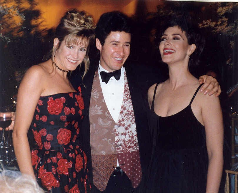 Photo taken at the 45th Emmy Awards 9/19/93- Governor's Ball